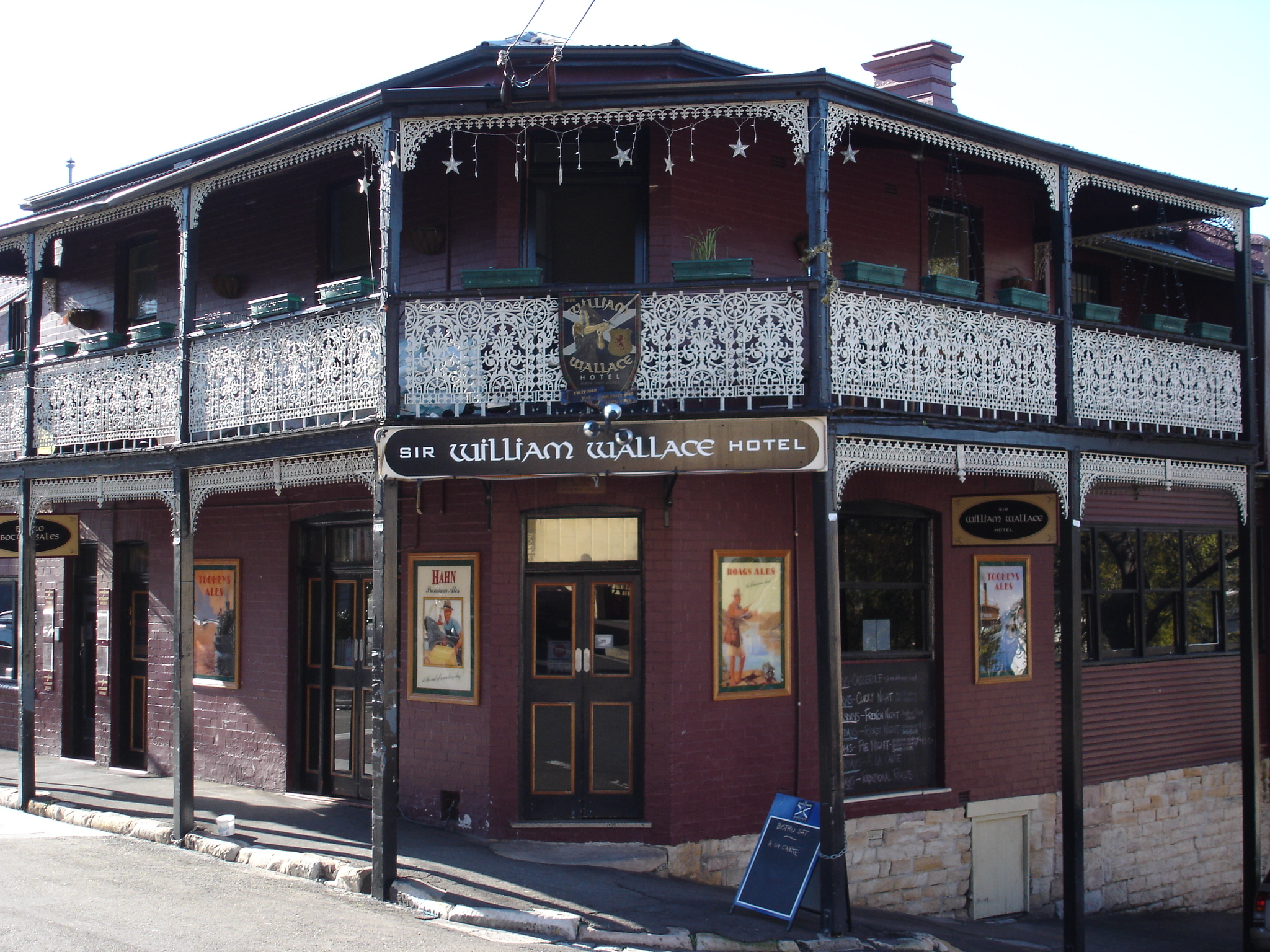 Sir William Wallace Hotel Balmain, New South Wales. Picture taken 19/8/06 by user Amitch.